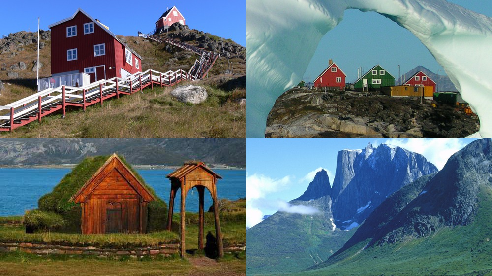 Montage of photographs from the Kujalleq Municipality, Greenland. top left: Qaqortoq top right: Alluitsup Paa bottom left: Brattahlíð church reconstruction at Qassiarsuk bottom right: Ulamertorsuaq mountain